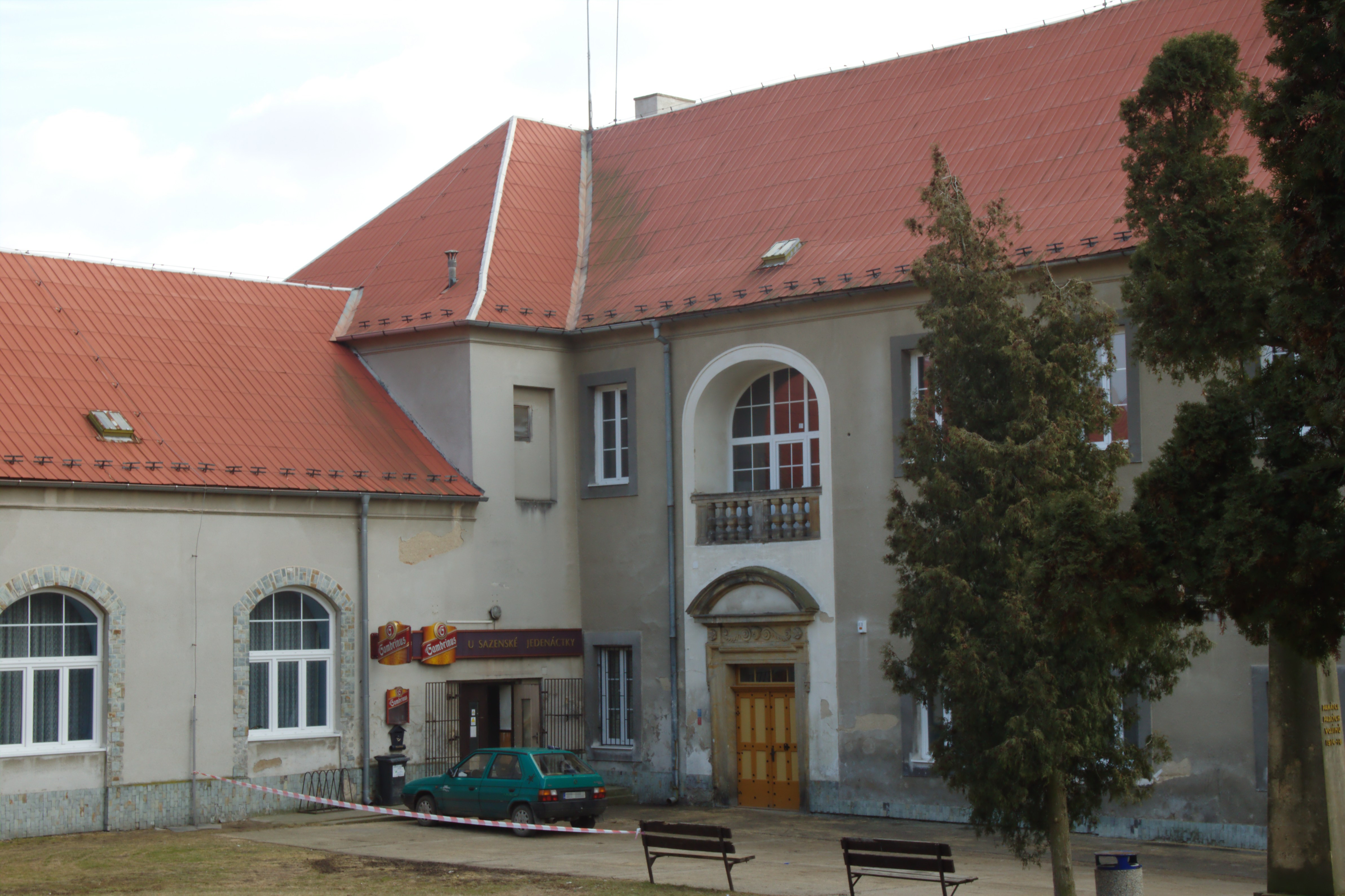 Sazená, a town in Kladno District, Central Bohemian Region, CZ